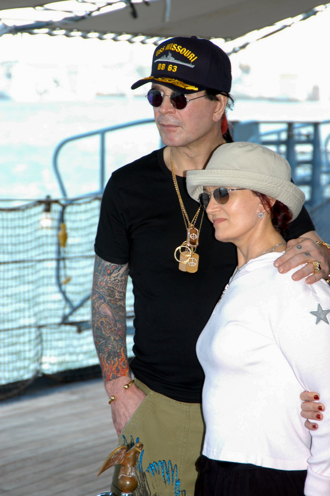 Pearl Harbor, Hawaii – Heavy Metal rock star and reality television hit Ozzy Osbourne and his wife Sharon, tour the battleship USS Missouri (BB 63) while filming their MTV show "The Osbournes" in Pearl Harbor, Hawaii. U.S.